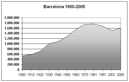 Barcelona's population, Spain, (1900-2005). Own work, given to PD.